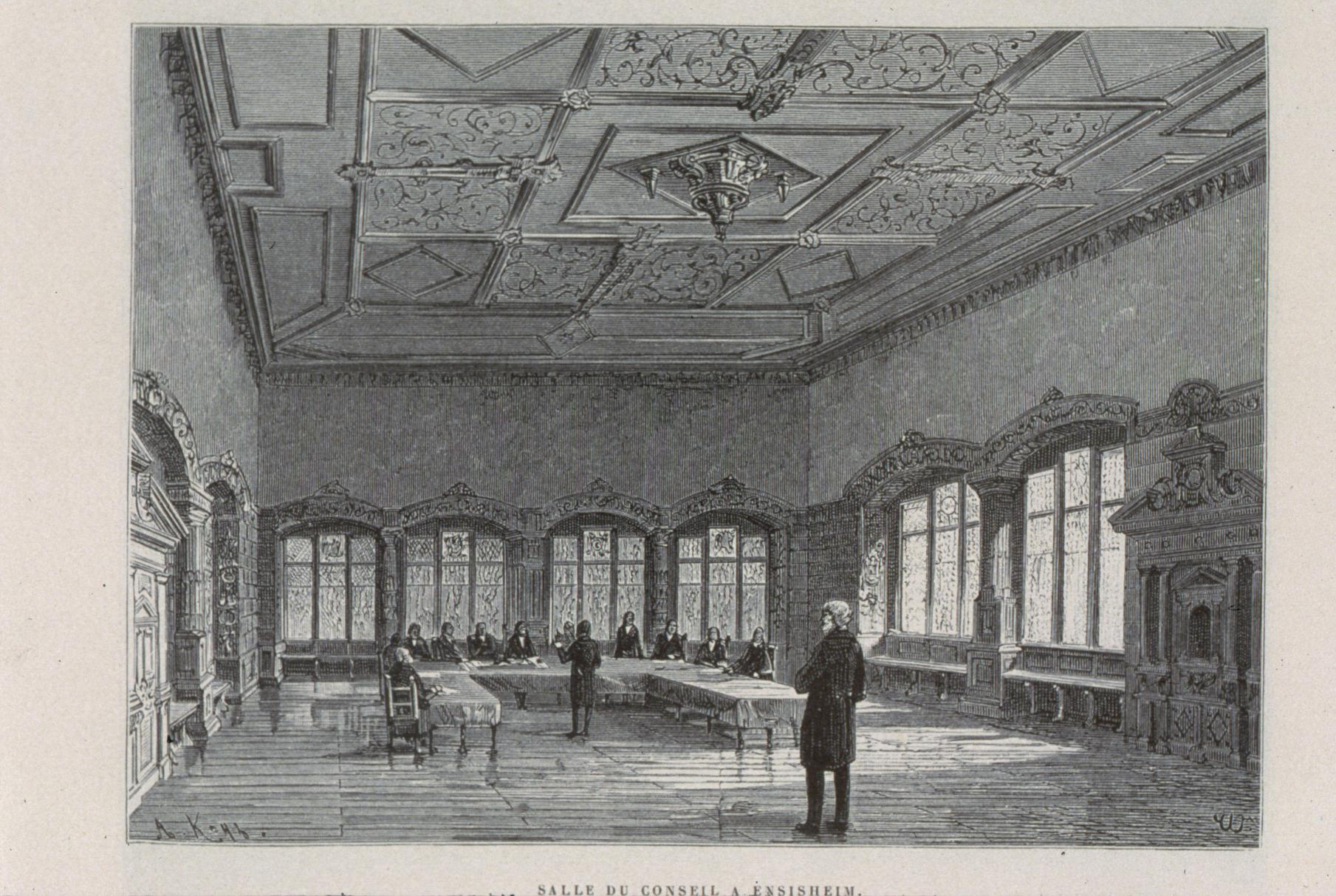 ENSISHEIM, Palais du Conseil souverain, Intérieur ,de WANCKLER, ill. et A. KOHL, graveur (1889)